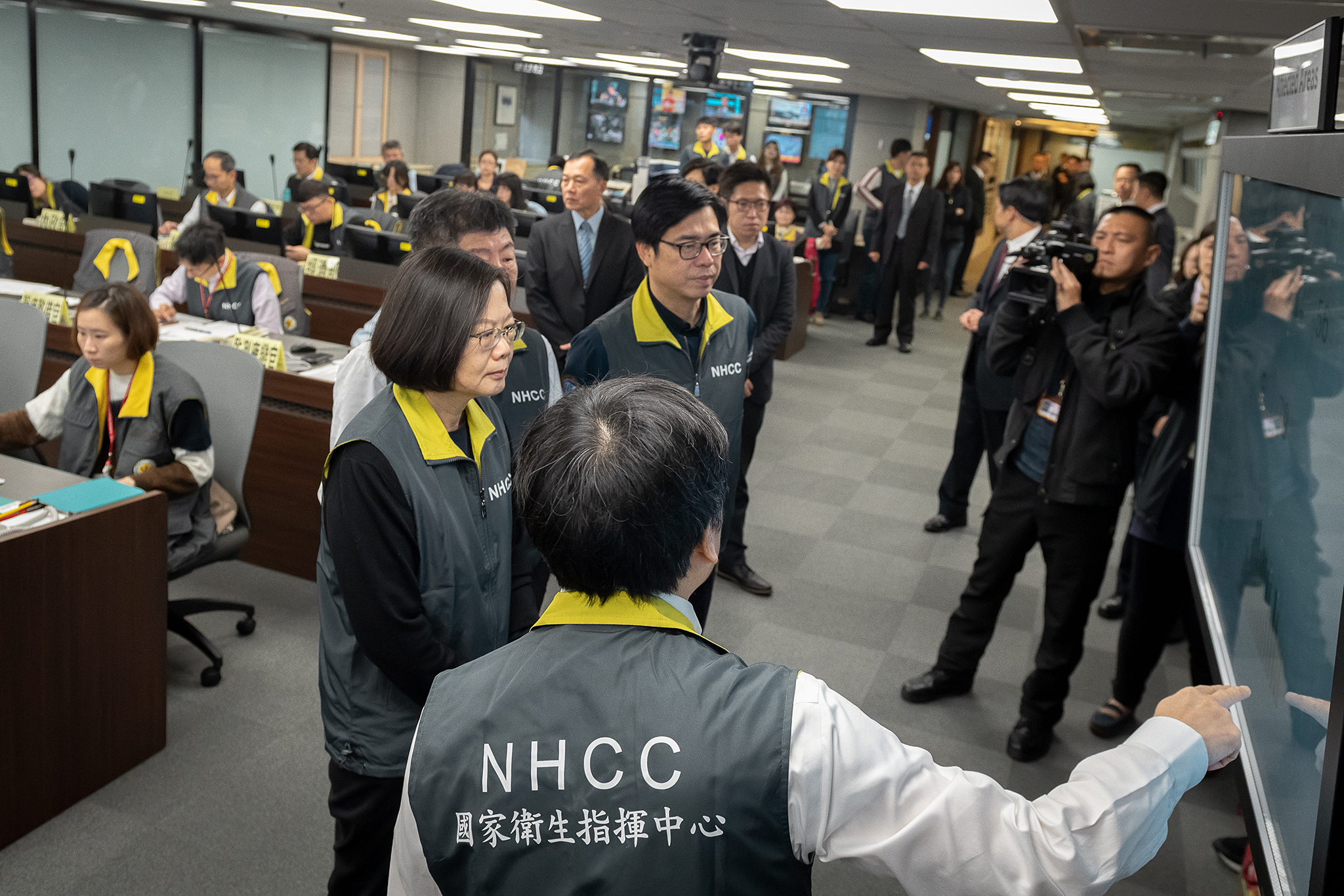 Official Photo by Makoto Lin / Office of the President